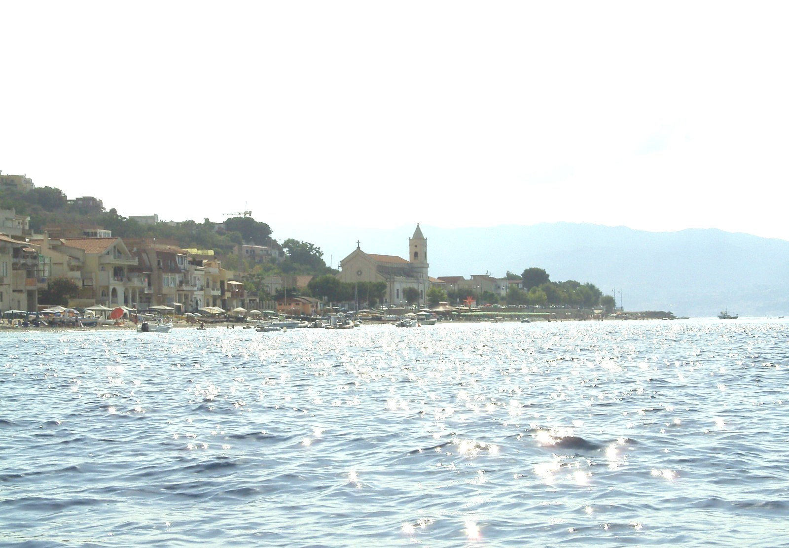 Sea and beach in Cannitello, Villa San Giovanni (RC), Italy.